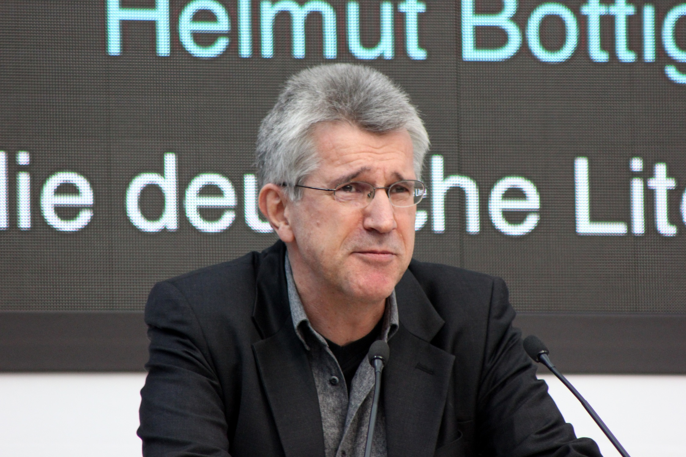 Helmut Böttiger, Leipzig Bood Fair 2013